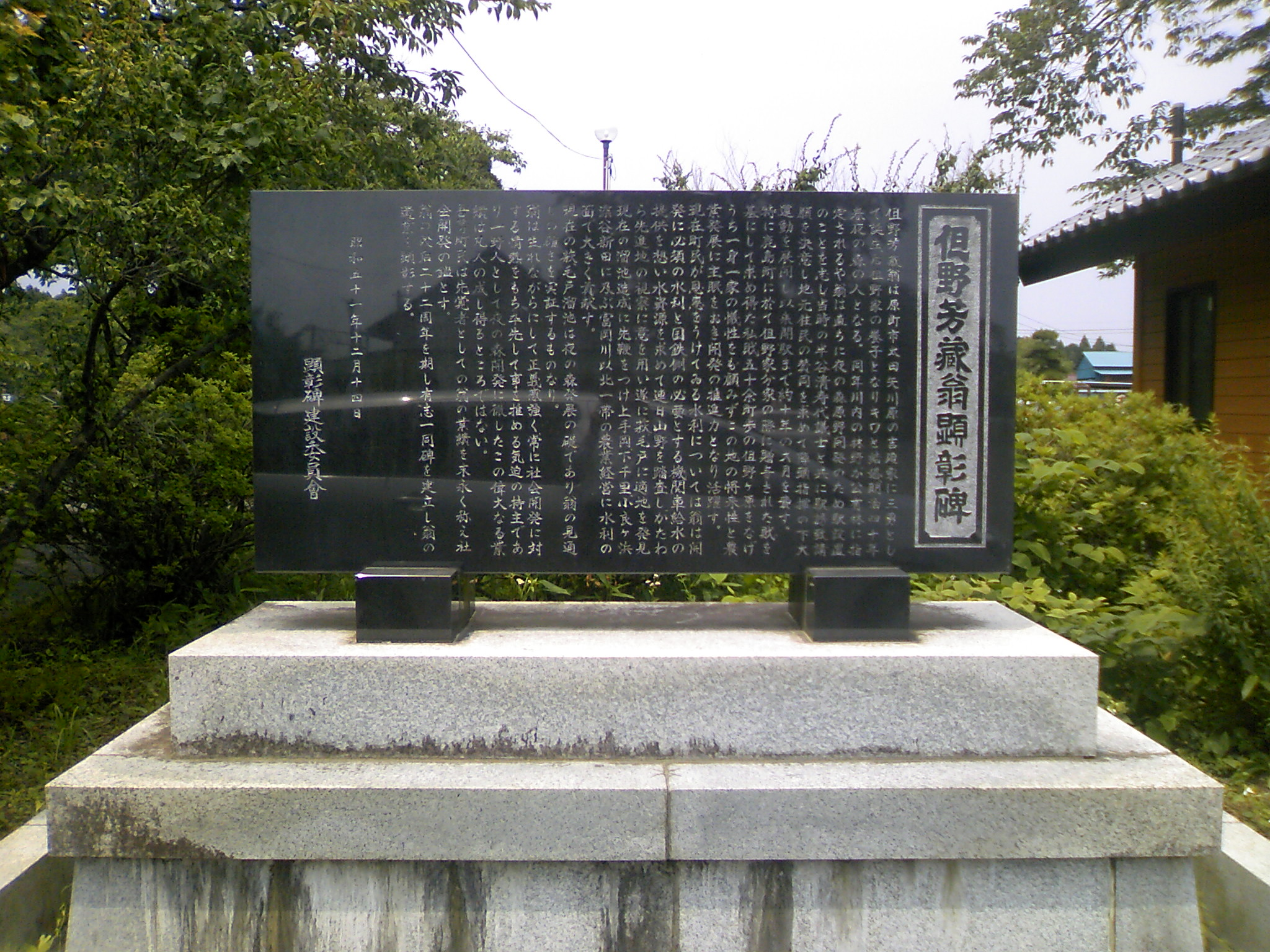 Yonomori Station